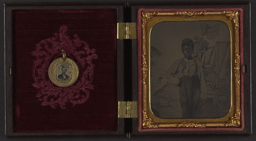 [Unidentified African American boy standing in front of painted backdrop showing American flag and tents ; campaign button with portraits of Lincoln on one side and Johnson on the opposite side are attached to inside cover of case] [between 1861 and 1865] 1 photograph : sixth-plate tintype ; 9.8 x 8.8 cm (case) Notes: Title devised by Library staff. Case: Berg, 3-95. Gift; Tom Liljenquist; 2010; (DLC/PP-2010:105). Lincoln and Johnson campaign button purchased from: Iron Gate Antiques, Turnersville, New Jersey, 2007. Subjects: Lincoln, Abraham,--1809-1865--Associated objects. Johnson, Andrew,--1808-1875--Associated objects. African Americans--Children--1870-1880. Boys--1870-1880. United States--History--Civil War, 1861-1865--Children. Format: Buttons (Information artifacts)--1860-1870. Portrait photographs--1860-1870. Ambrotypes--1860-1870. Repository: Library of Congress, Prints and Photographs Division, Washington, D.C. 20540 USA, Part Of: Ambrotype/Tintype filing series (Library of Congress) (DLC) 2010650518 Liljenquist Family collection (Library of Congress) (DLC) 2010650519 More information about this collection is available at Persistent URL: Call Number: AMB/TIN no. 2178